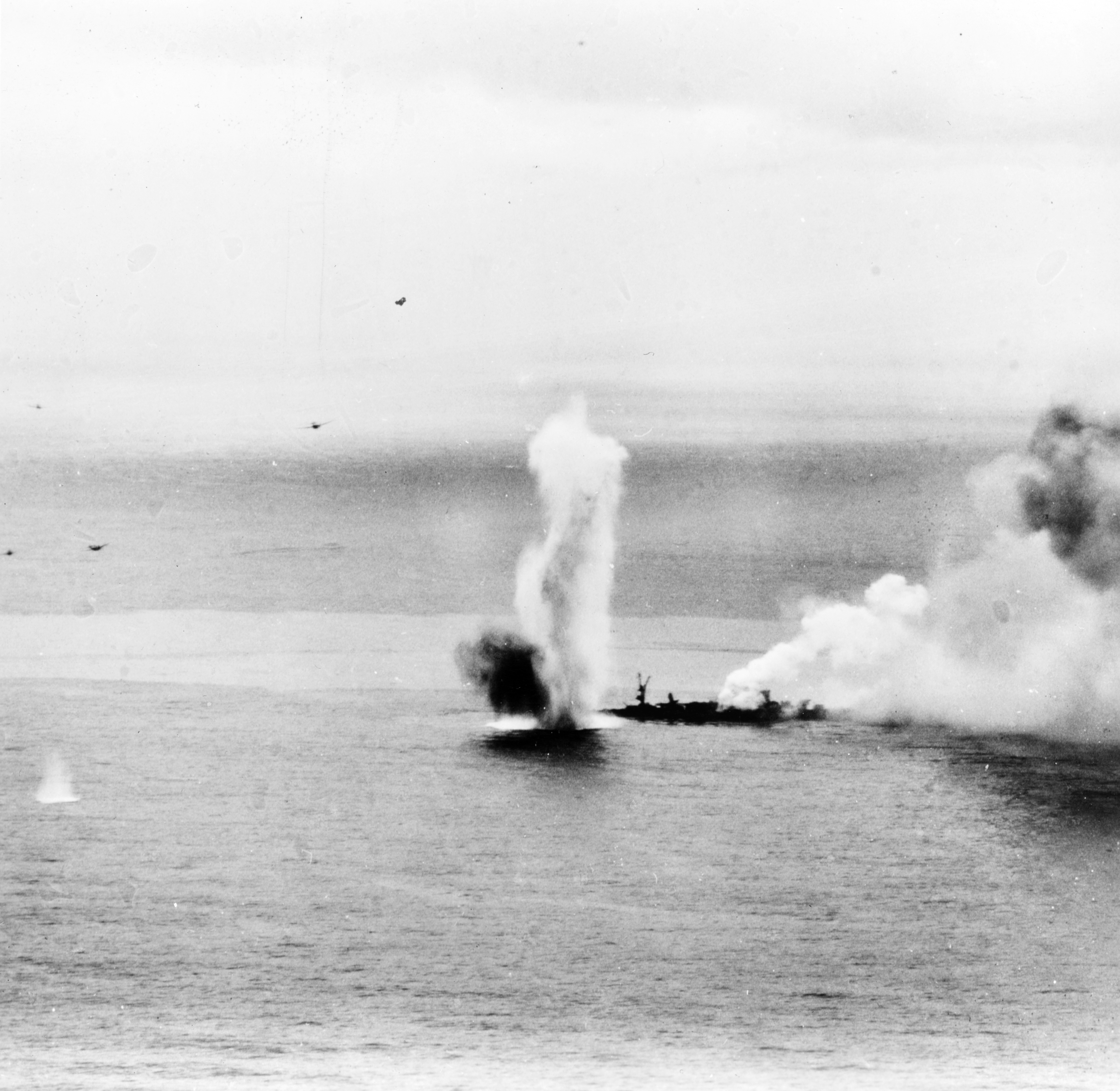 Operation "Ten-Go", 7 April 1945: The Japanese light cruiser Yahagi under attack by U.S. planes. She is listing heavily to port. Four attacking planes are visible on the left. The photo was taken at 1345 hrs by a plane from the aircraft carrier USS Yorktown (CV-10). Yahagi sank 20 minutes later.